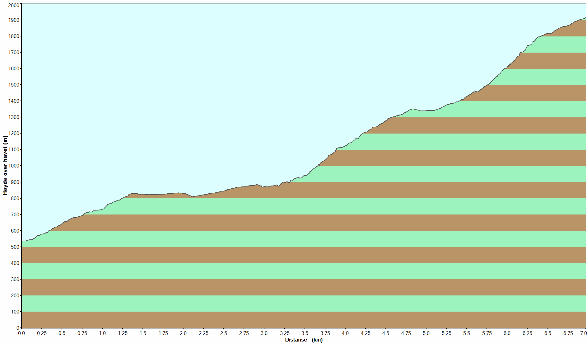 Height profile along a hiking trail to the Oksskolten mountain in Norway